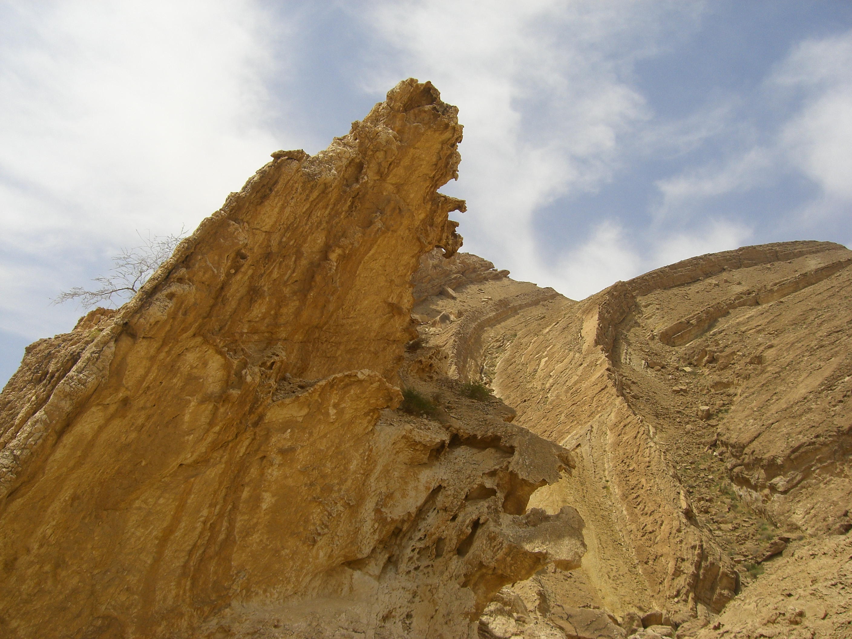 Cliff above the big fall in Wadi Akrabim, Negev Desert, Israel